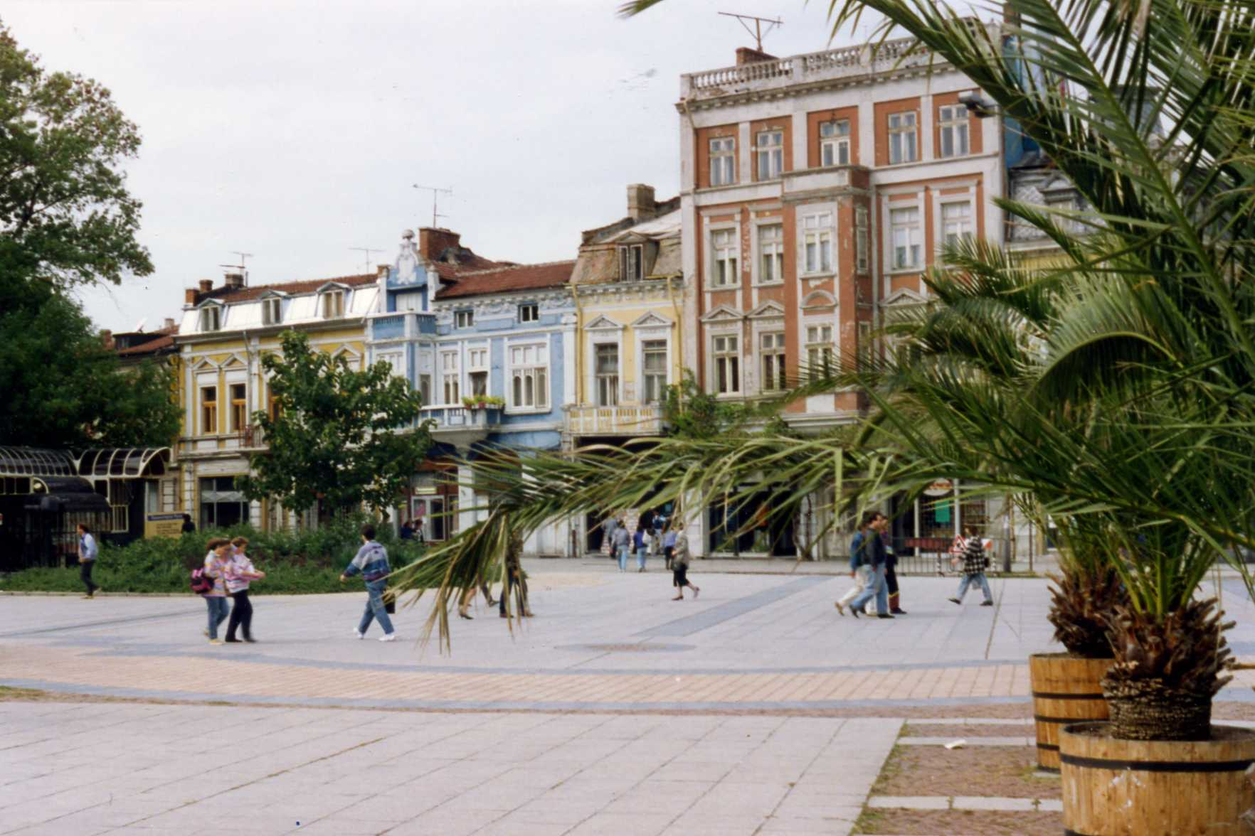 The center of Ruse, Bulgaria, October 1993